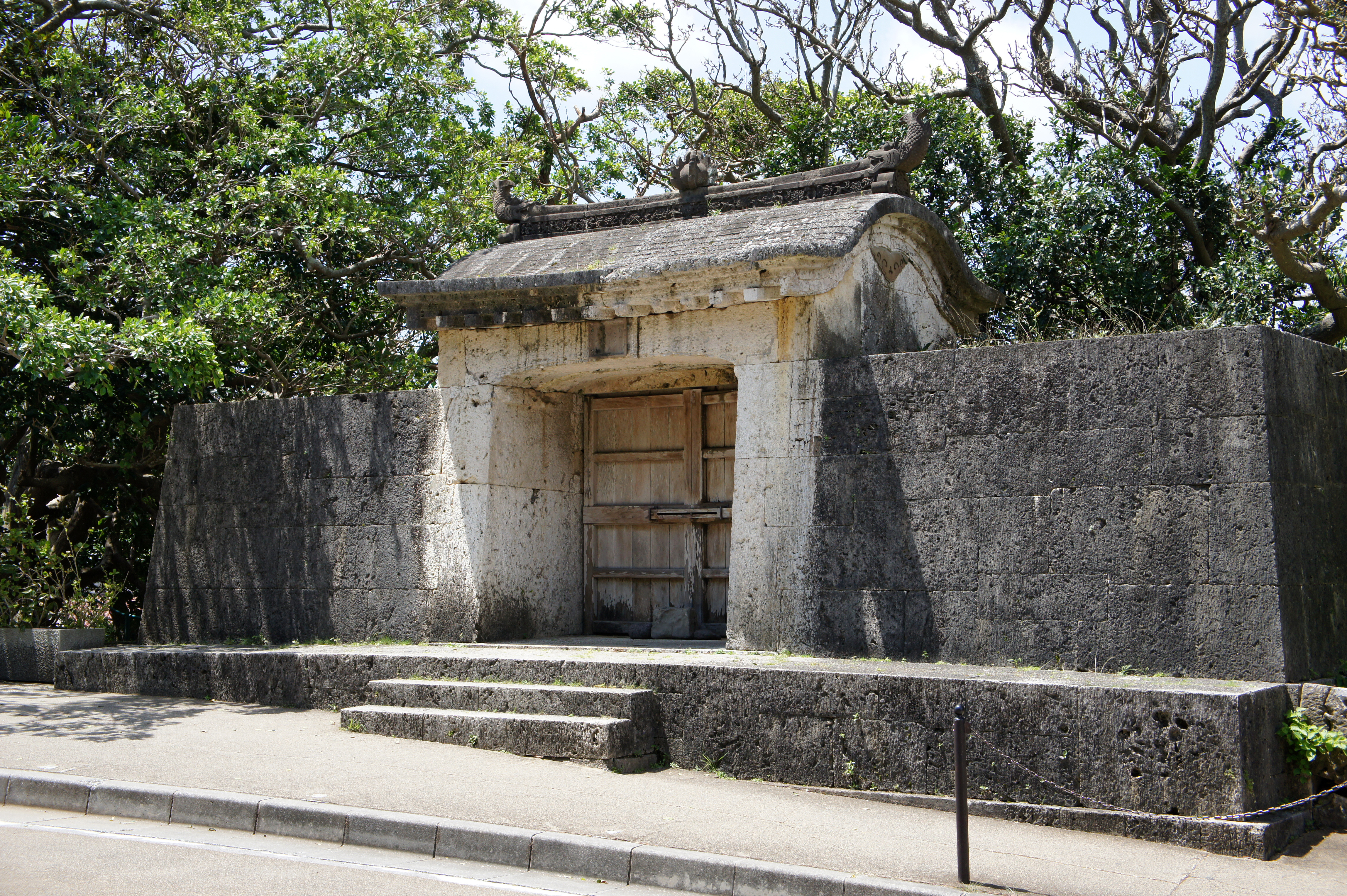 at Shuri Castle in Naha, Okinawa prefecture, Japan